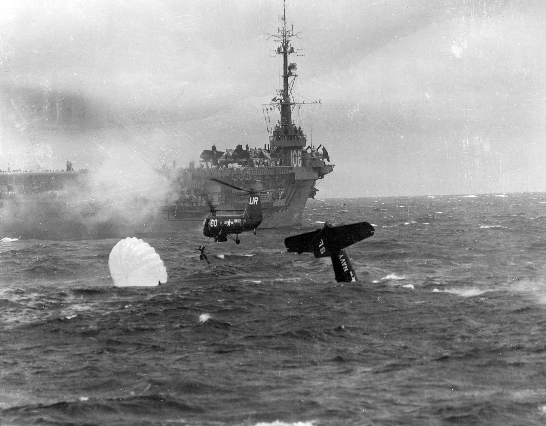 Recovery of the Ensign E.H. Barry, pilot of a U.S. Navy Grumman AF-2 Guardian from Anti-Submarine Squadron 22 (VS-22) by a Piasecki HUP helicopter after the plane was forced to ditch immediately after launching in 1953. The parent escort carrier USS Block Island (CVE-106) is standing by in the background.